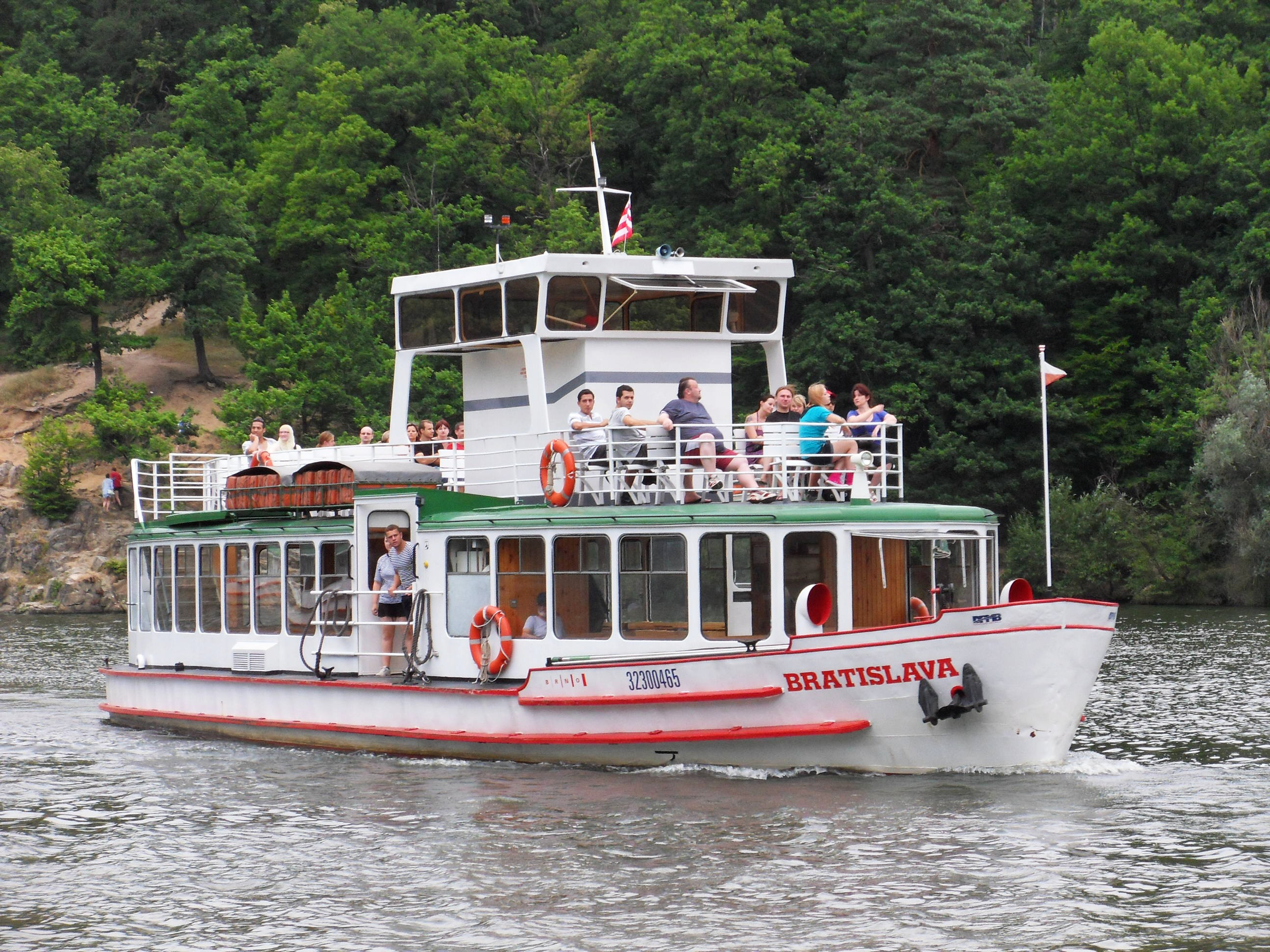 Bratislava ship at Brno Reservoir, Brno, Czech Republic